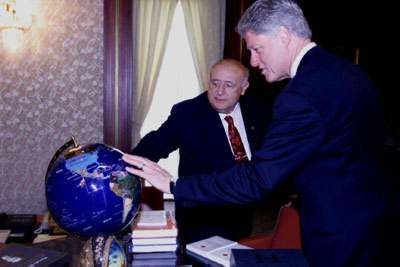 U.S. President Clinton and Turkish President Süleyman Demirel at Çankaya Presidential Palace, Ankara, Turkey.